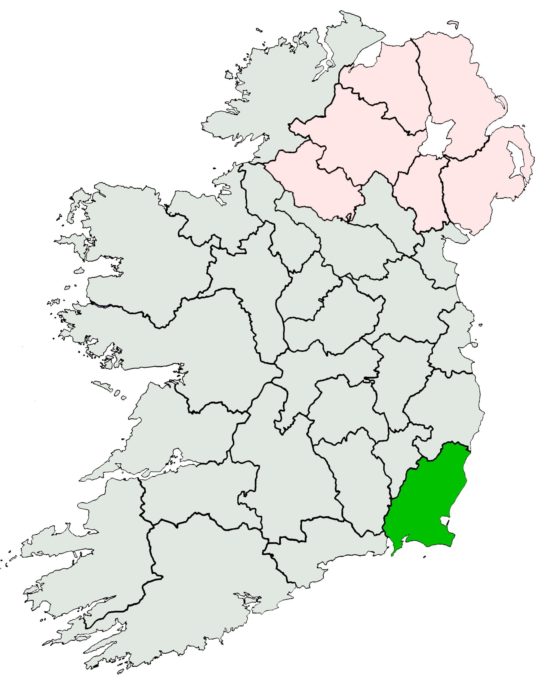 County Wexford highlighted on an outline map of Ireland.